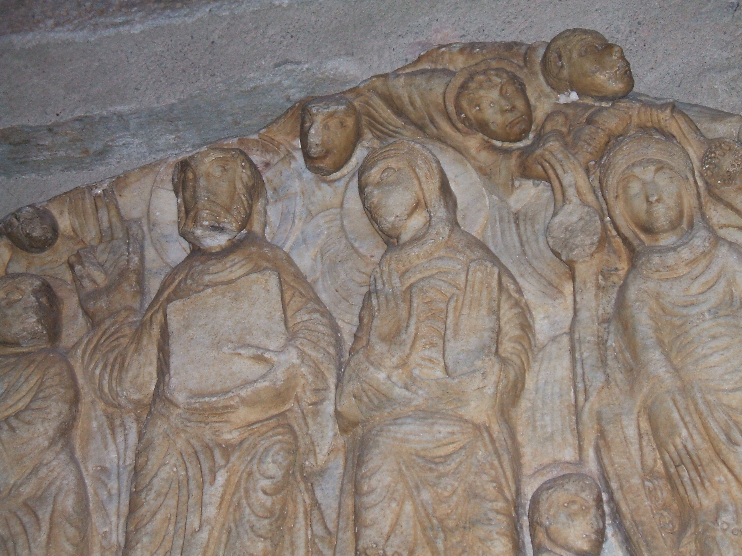 Cabestany, tympanum in the Notre-Dame-des-Anges Church of the Master of Cabestany (sculptor of the XIIth century)